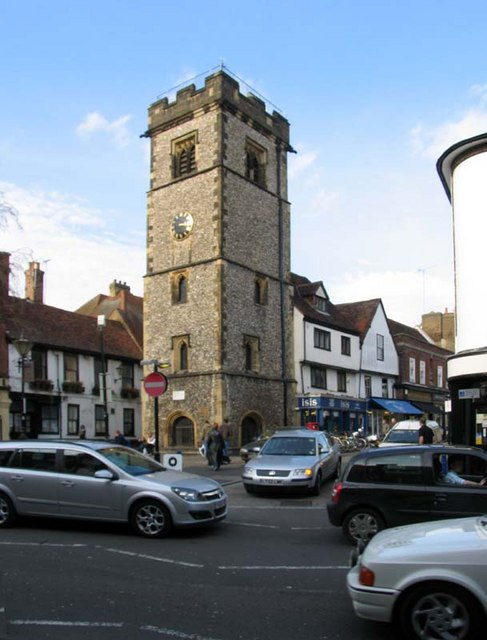 High Street, St Albans - Tower